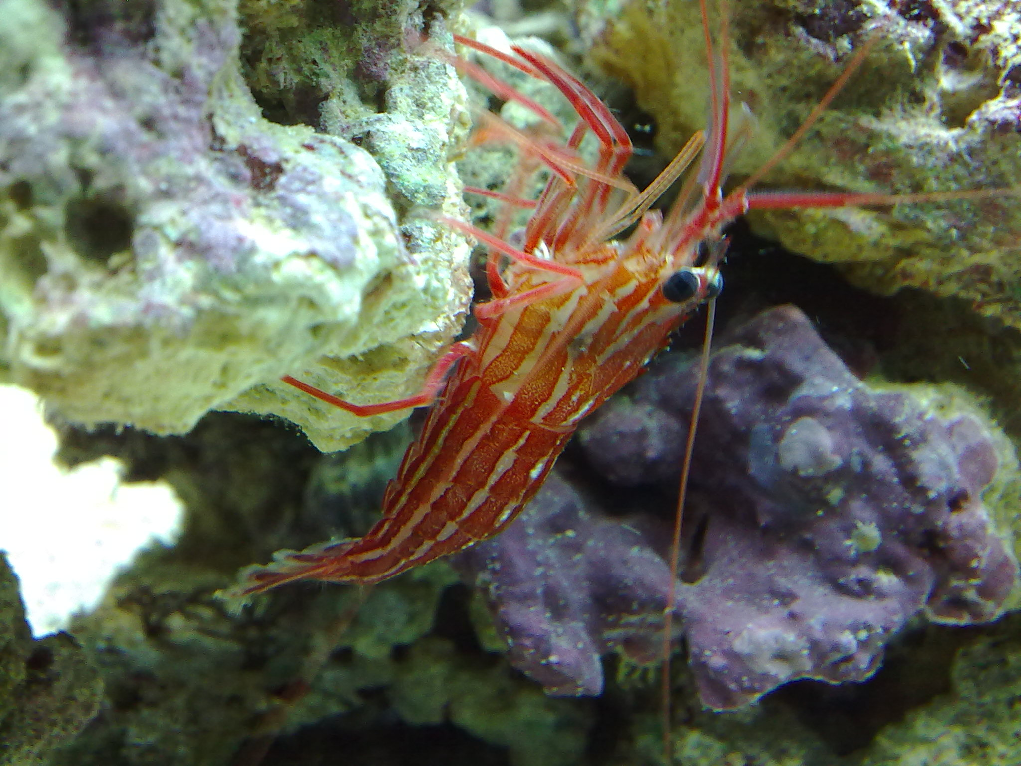 Lysmata seticaudata in marine aquarium.